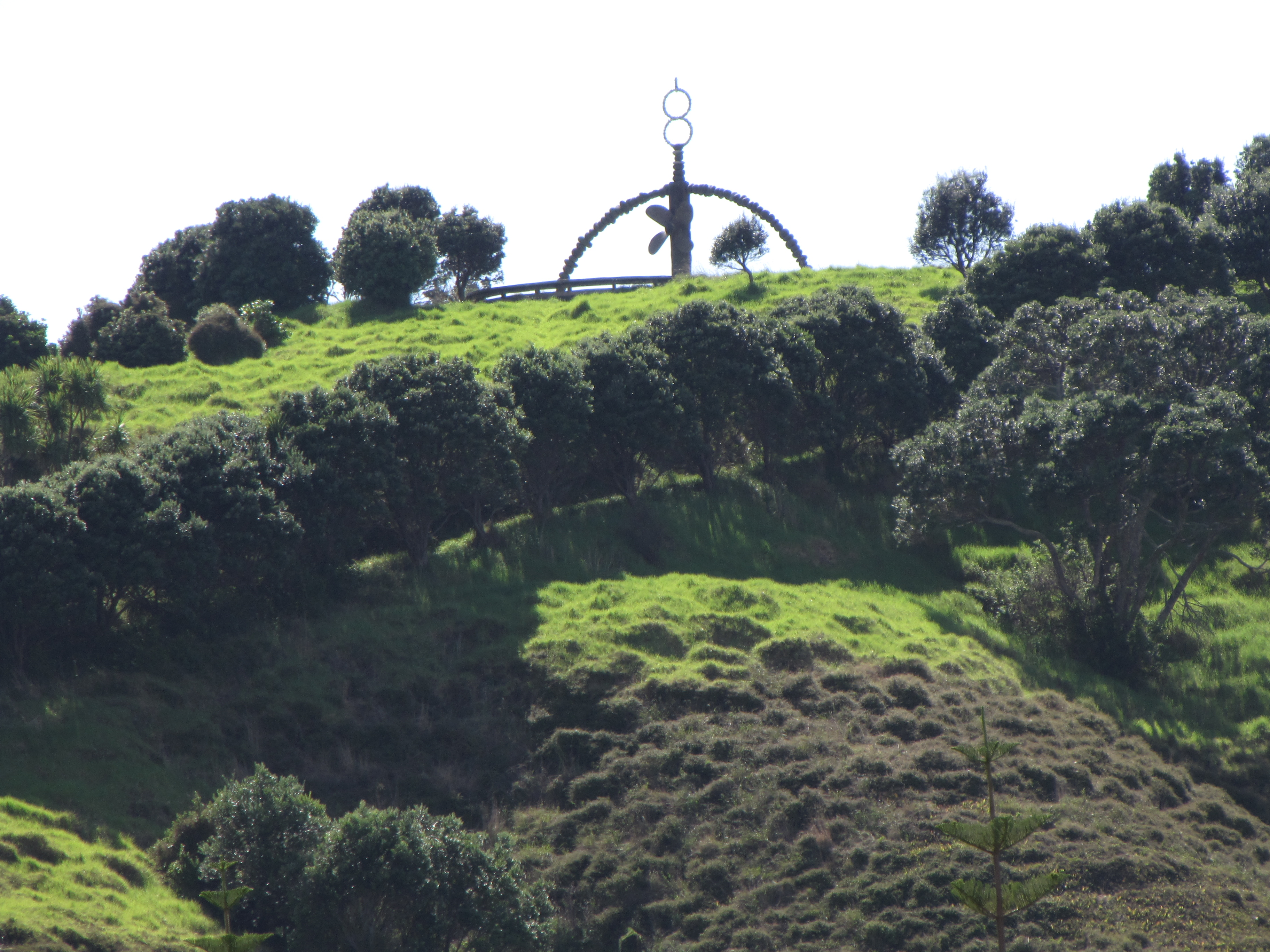 Matauri Bay, Northland, New Zealand. Memorial to the Rainbow Warrior, a Greenpeace vessel sunk in Auckland by French agents in 1985.